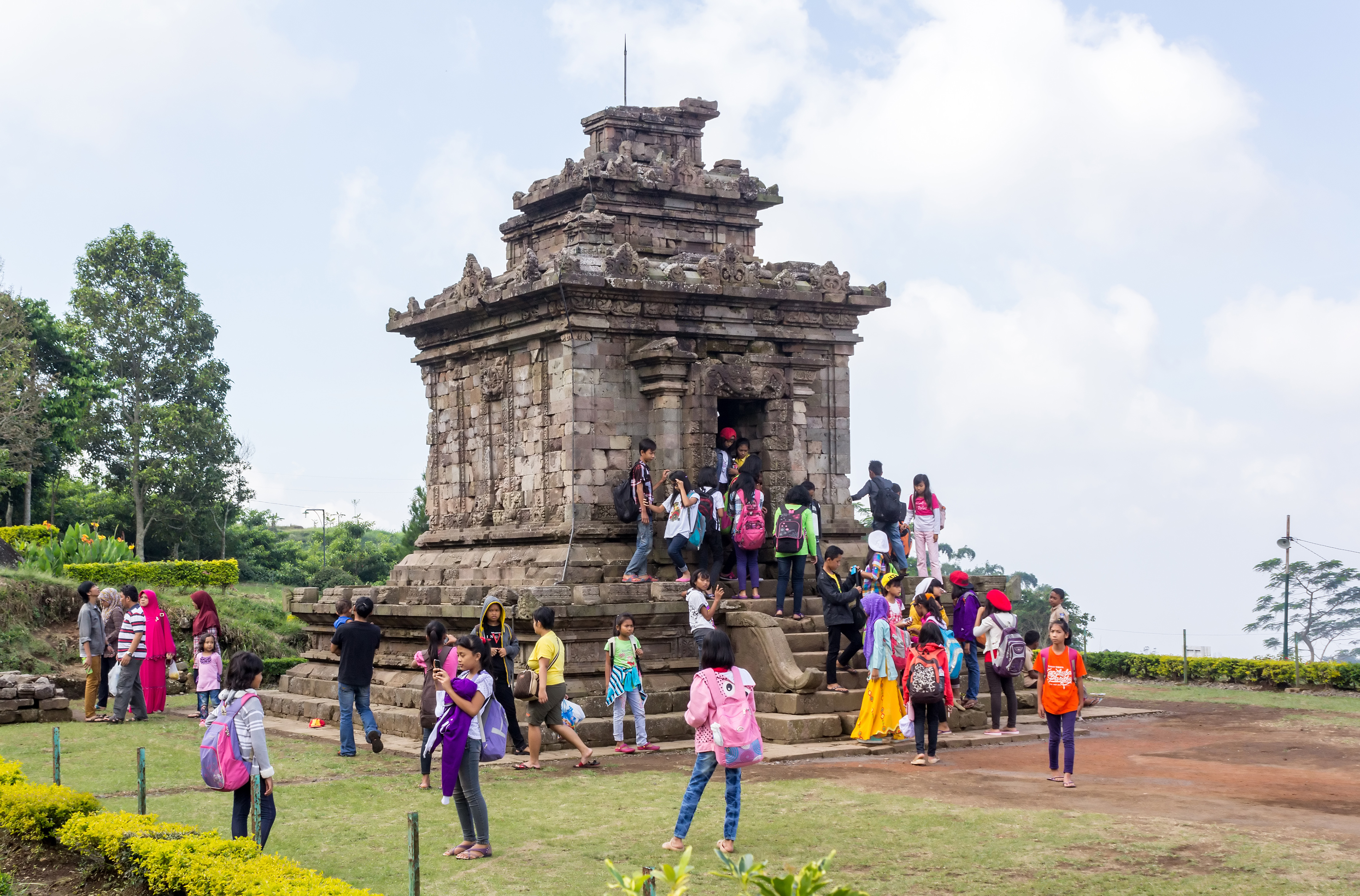 Candi Gedong Songo I, 2014-06-16.